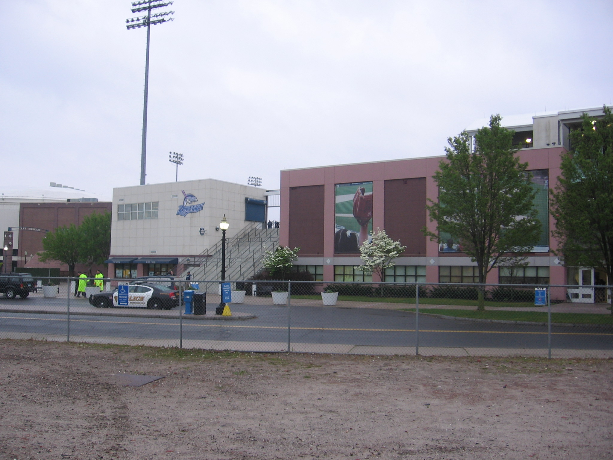 Opening day at the Ballpark at Harbor Yard in Bridgeport, Connecticut, Thursday 26 April 2012. The 15th season for the Bluefish.